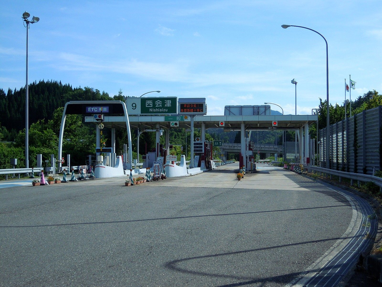 This Interchange, Nishiaizu Interchange, is on Ban'etsu Expressway, in Nishiaizu Town, Fukushima Prefecture, Japan.